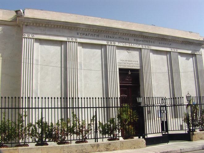 Athens_Jewish_community_center. Credit: Courtesy of Arie Darzi to memorialize the Jewish community in Greece.